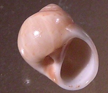 Euspira nitida (Donovan, 1804) (synonym:Eunaticina nitida L. A. Reeve, 1864, a moon snail from the family Naticidae; Spain Category:Naticidae